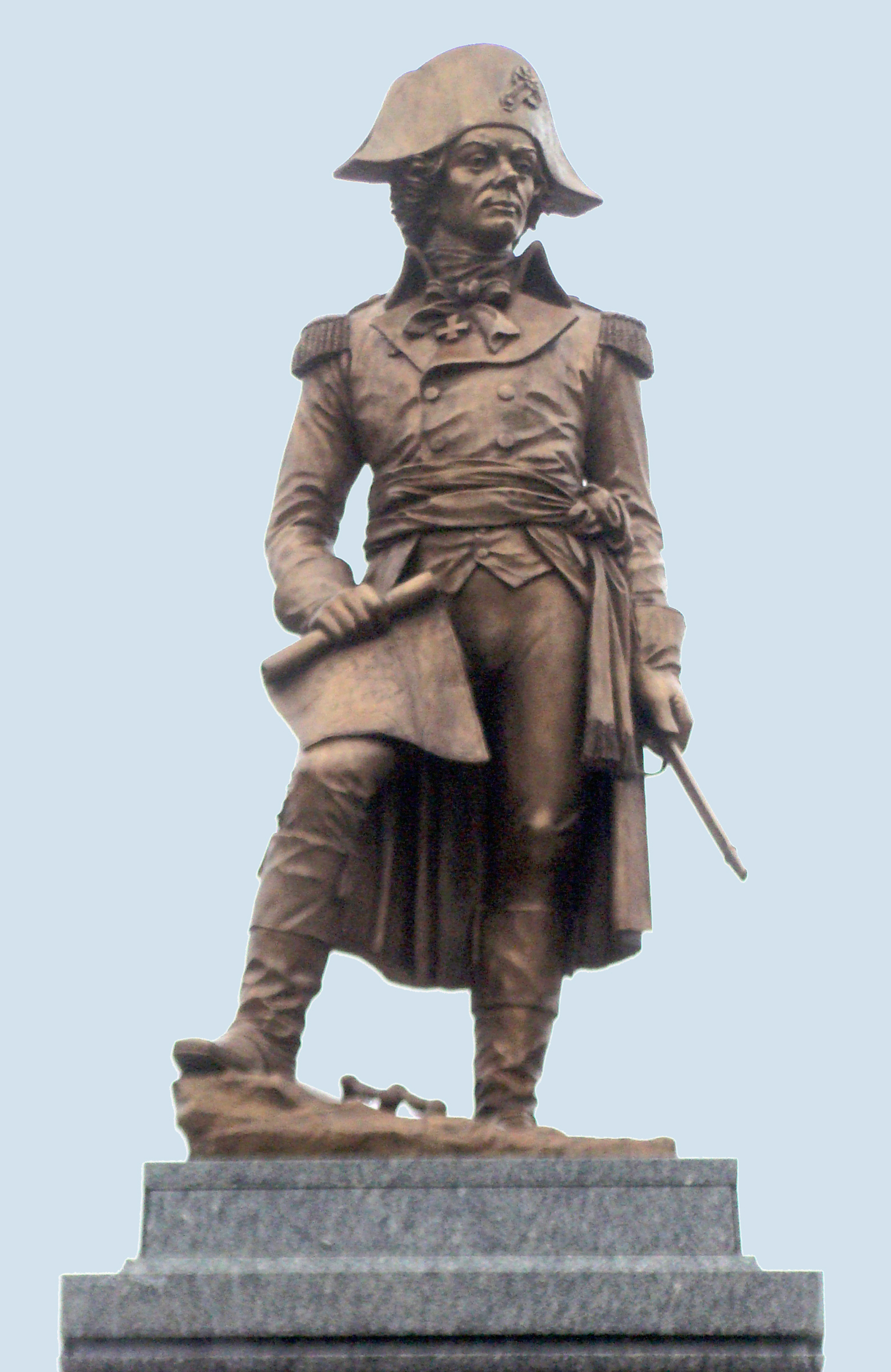 Kosciuszko monument Warsaw